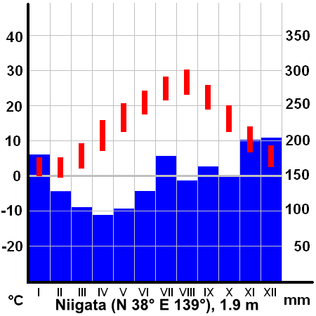 Climate diagram of Niigata, Japan. Map based Image:ClimateTemplate.PNG Source:JMA data